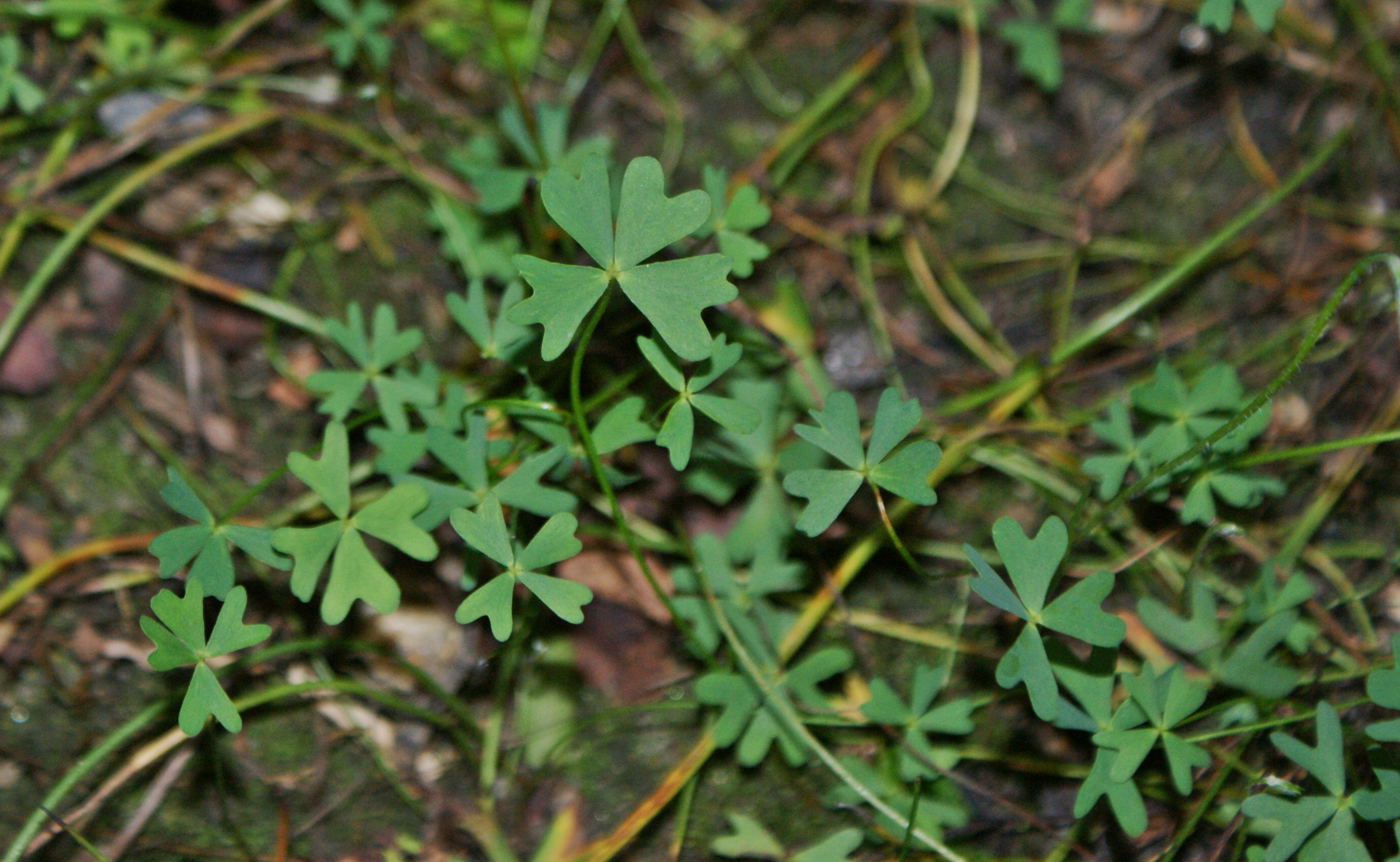 Marsilea schelpeana